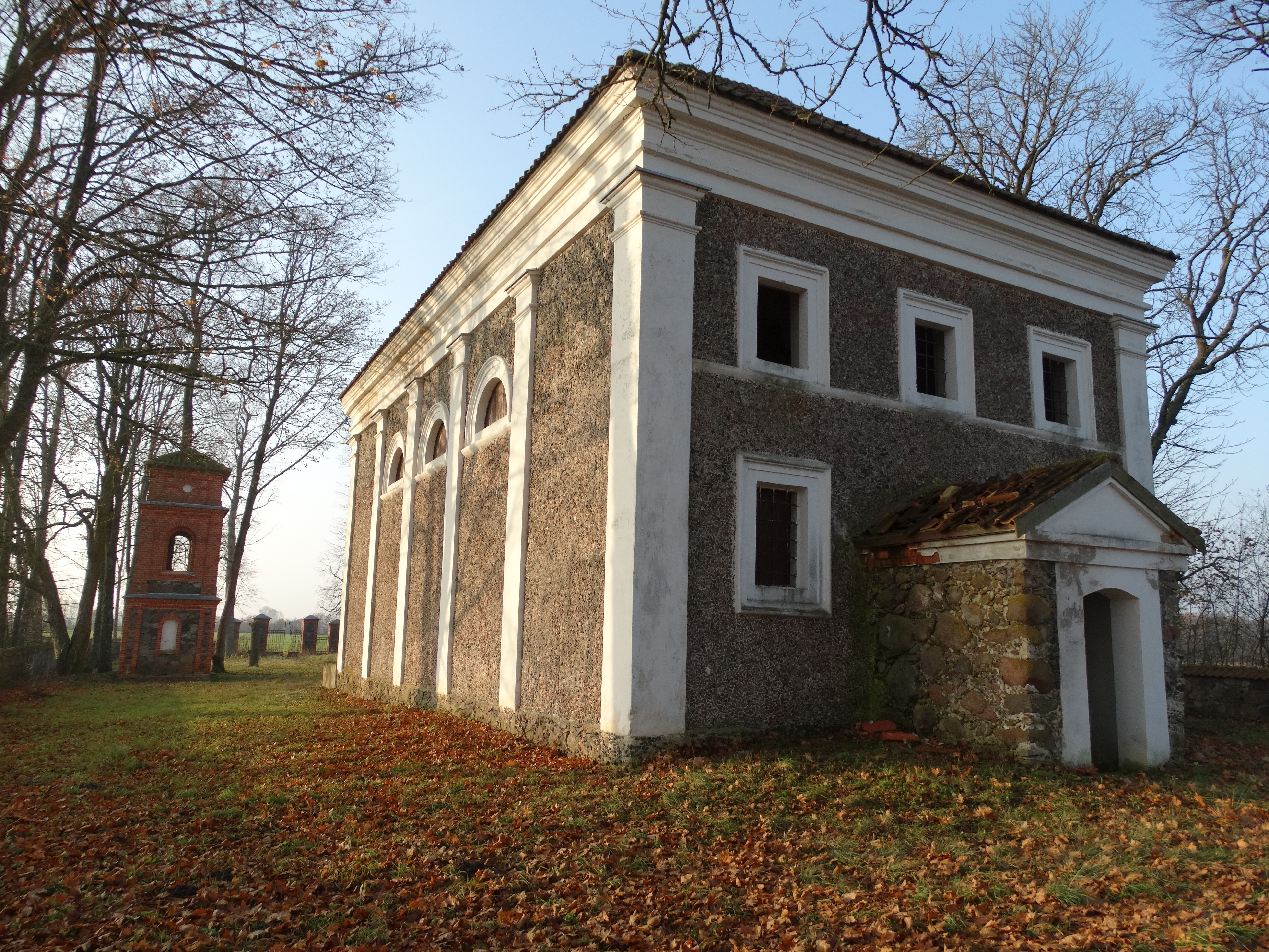 Chapel in Niurkoniai (by Lavėnai), Pasvalys district, Lithuania